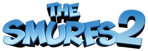 "The Smurfs 2" (2013) logo.